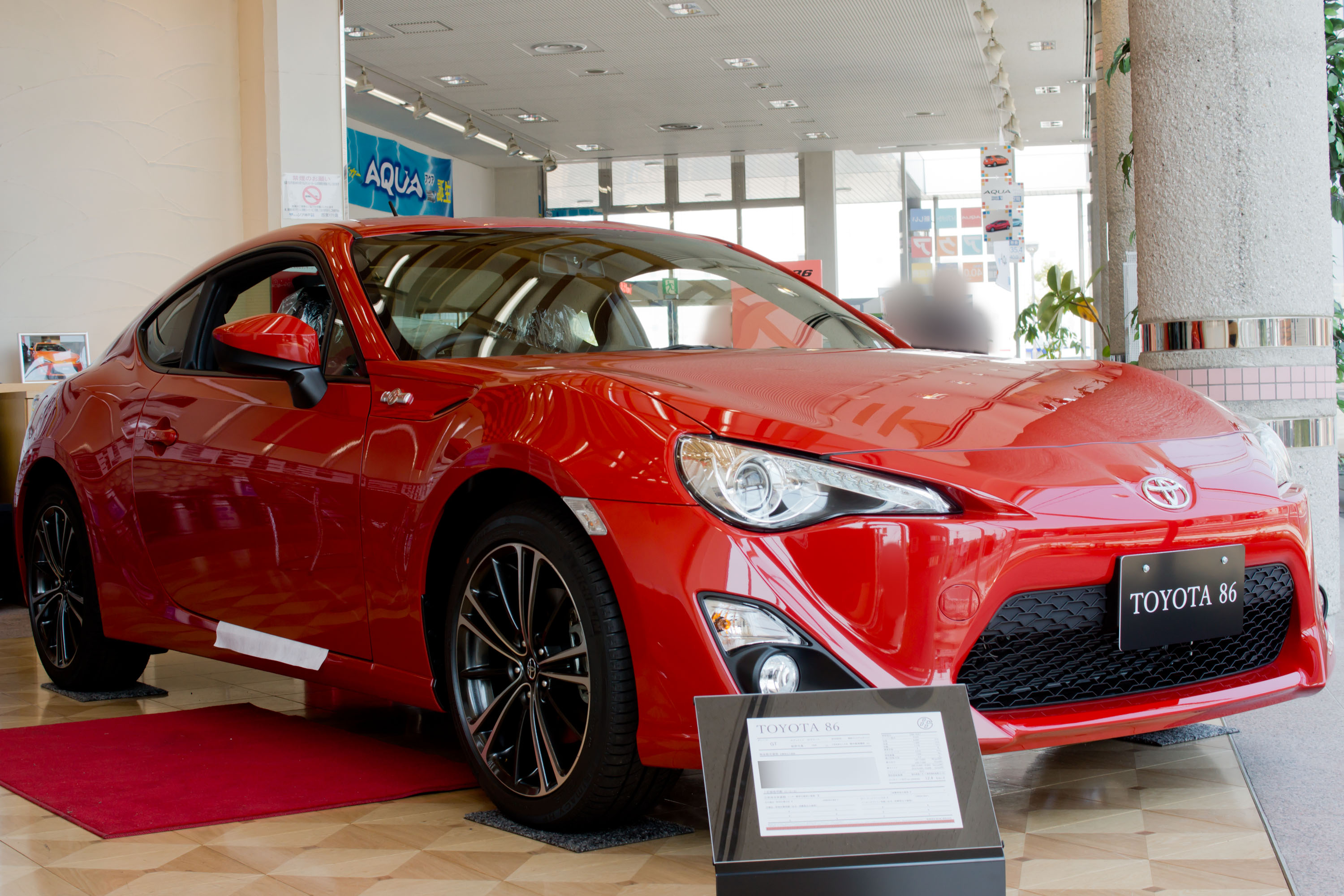 Toyota 86 (as known as Toyota FT-86, Toyota GT86, Sion FR-S). GT grade. Red.